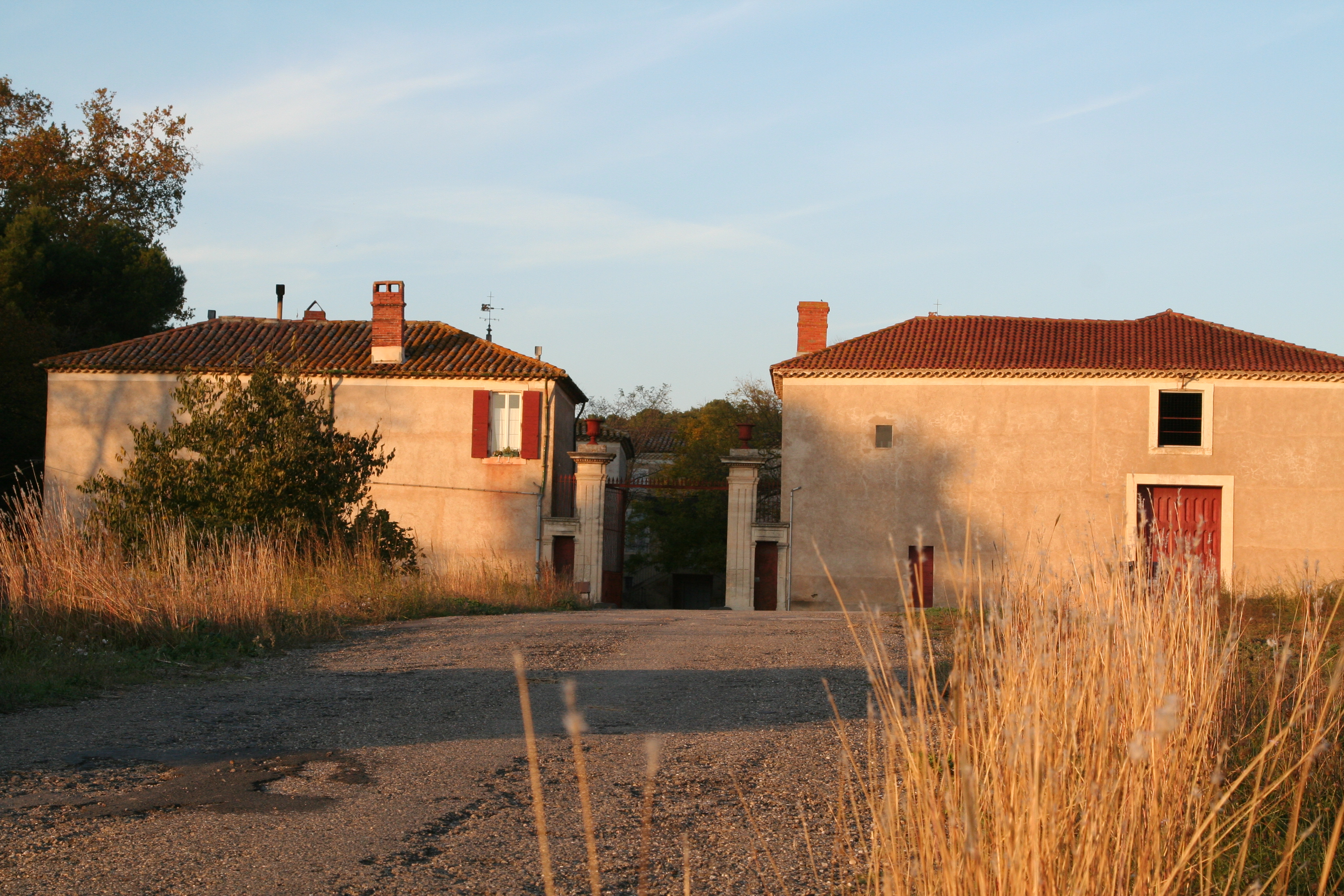 Domaine de Pailhès